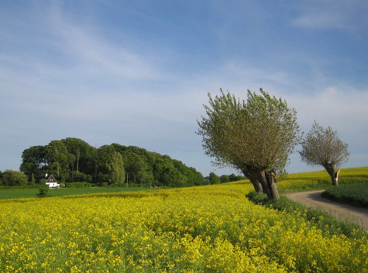 Landscape in Svedala municipality, Skåne with willows and a flowering yellow rapefield.